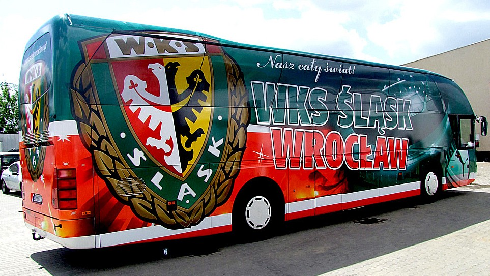 Neoplan Starliner N216 coach (reg. DW 4489S) in Wrocław, Poland. Śląsk Wrocław, Sportowa S.A. operator.